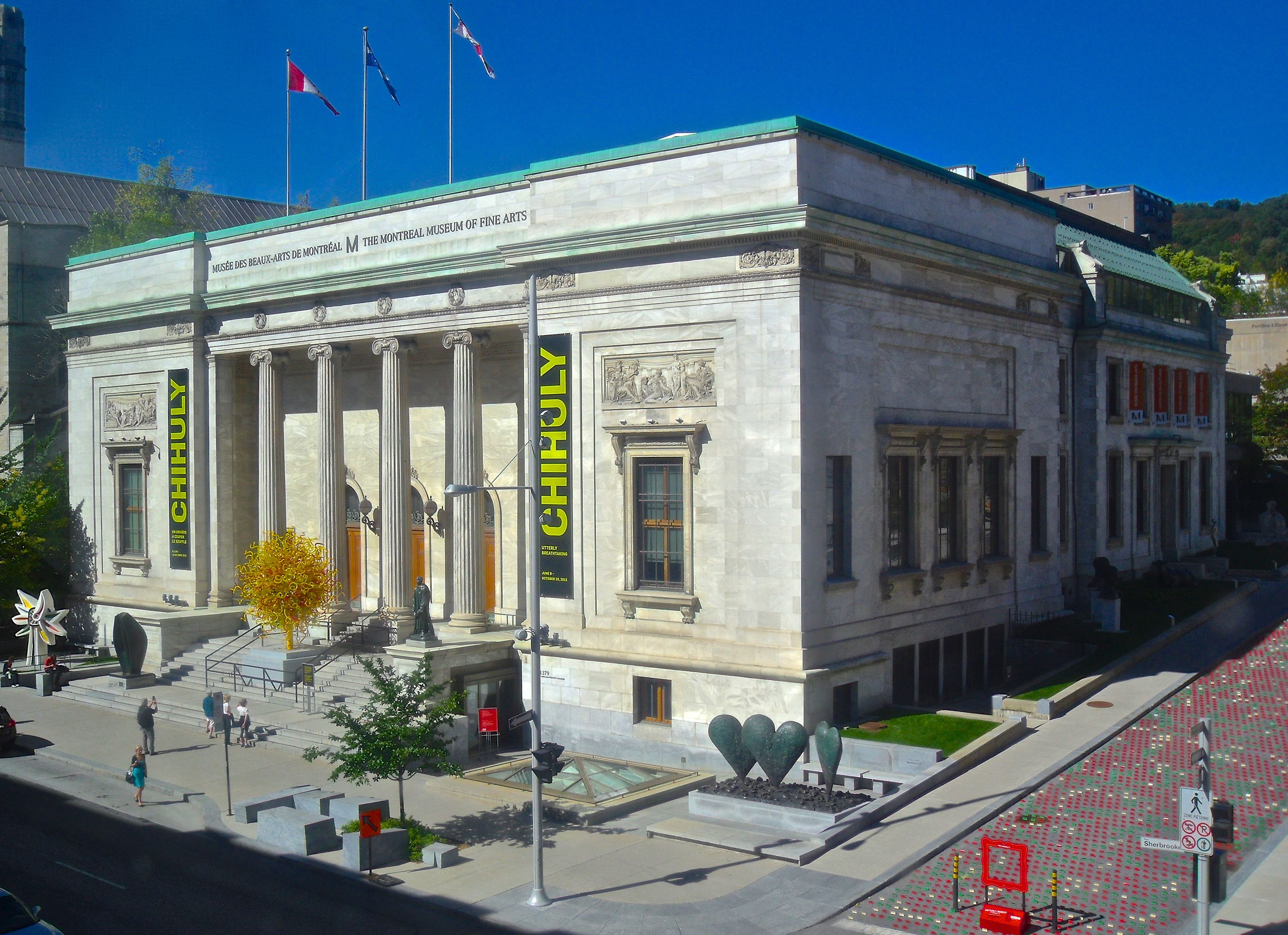 The New Art Gallery Building, known as the Michal and Renata Hornstein Pavillon of Montreal Museum of Fine Arts, 1379 Sherbrooke Street West, Montreal, Quebec, Canada.